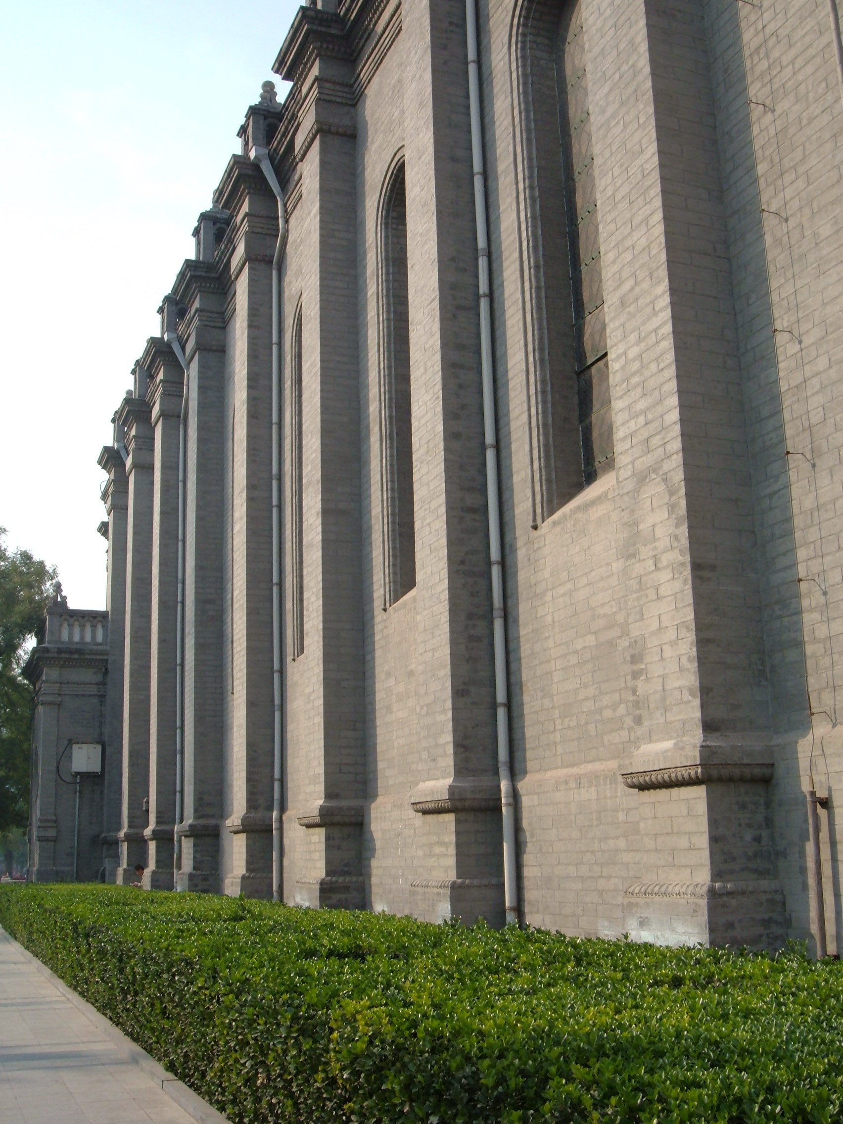 Side of St. Joseph's Cathedral, AKA Dong Tang or the East Church, in Beijing, PRC.